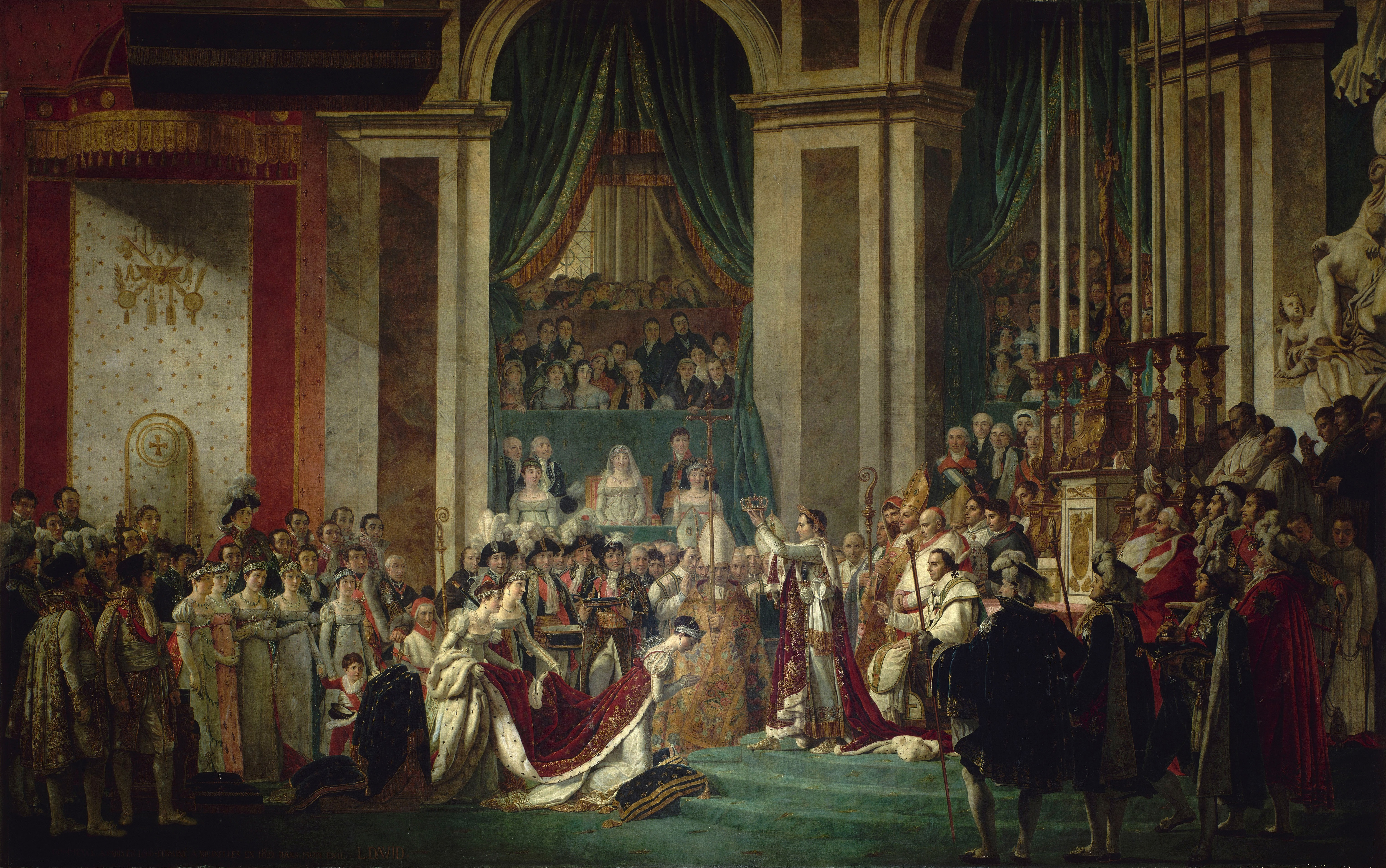 Joséphine kneels before Napoléon during his coronation at Notre Dame. Behind him sits pope Pius VII. Depicted place: Notre Dame de Paris (48°51′12″N 2°20′57″E / 48.853222°N 2.349028°E)